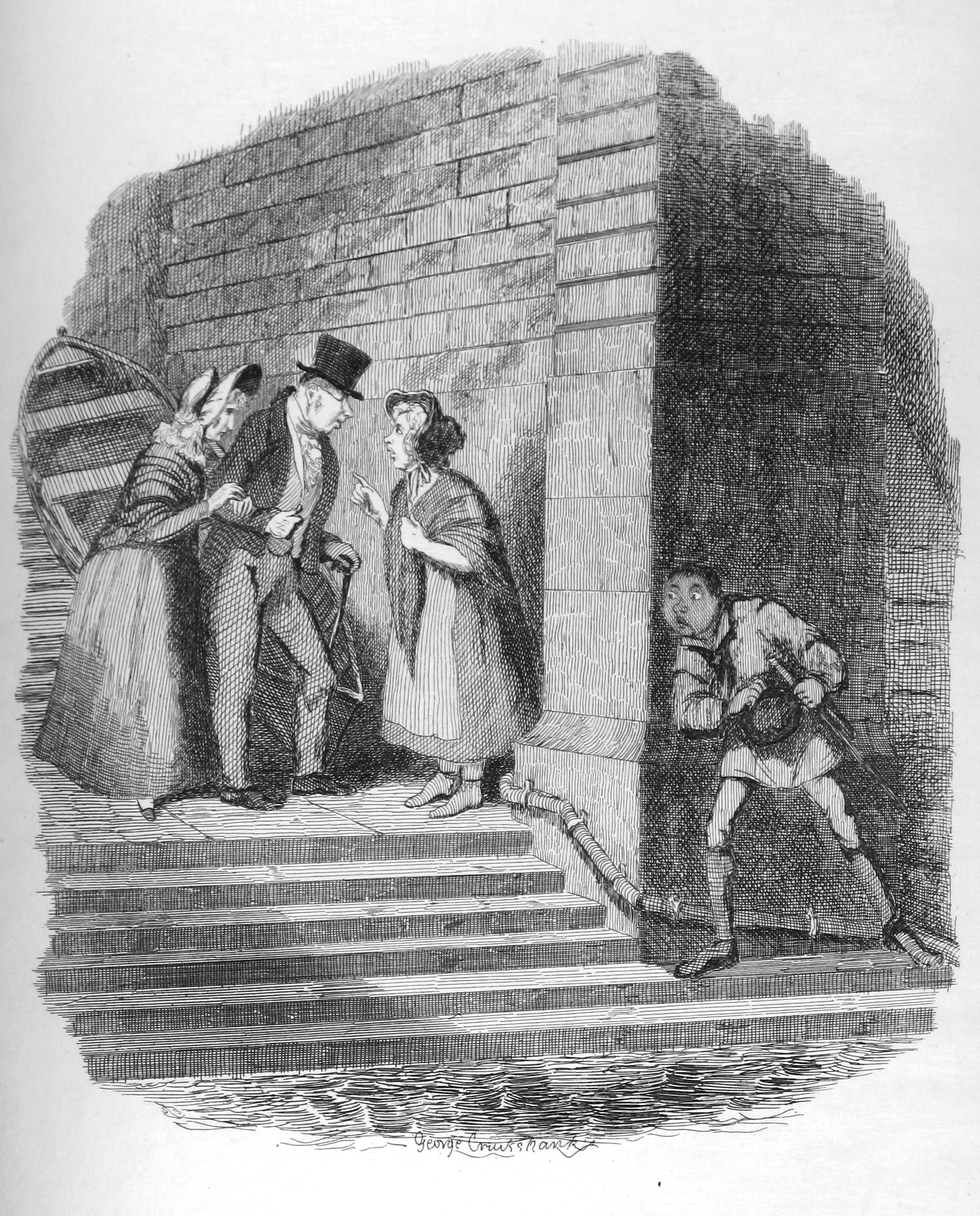 A photograph of an engraving in The Writings of Charles Dickens volume 4, Oliver Twist, titled "The Meeting".